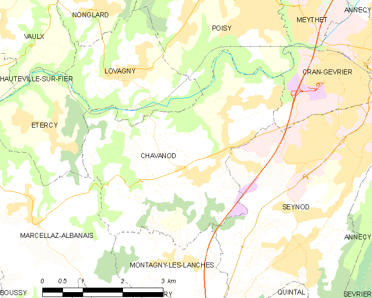 Map of French municipality Chavanod